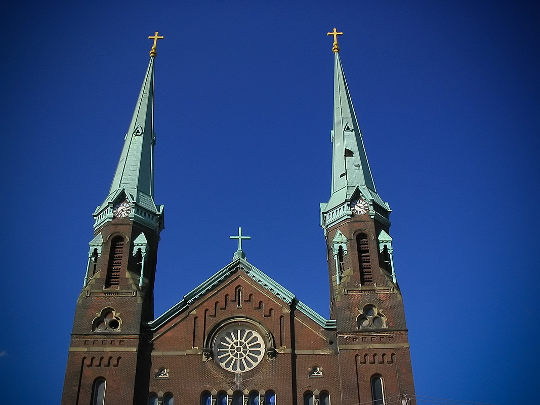 photo of "Old Saint George, aka St. George's Catholic Church, aka St. George Parish and Newman Center"